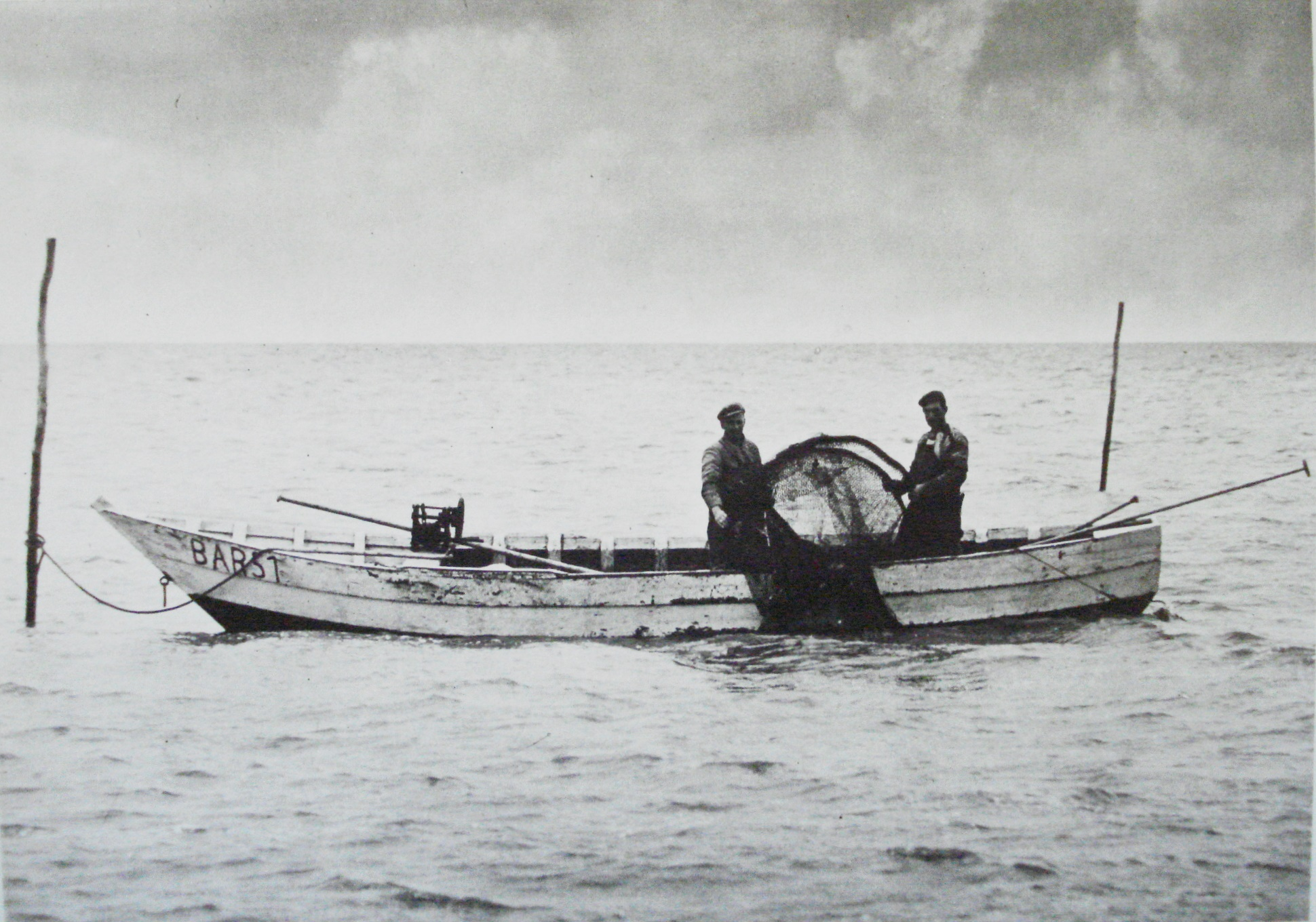 Gathering fisch by two cousins